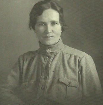 Hilja Riipinen, a member of the parliament, in the Lotta Svärd uniform in 1918-1919 or the 1920s.